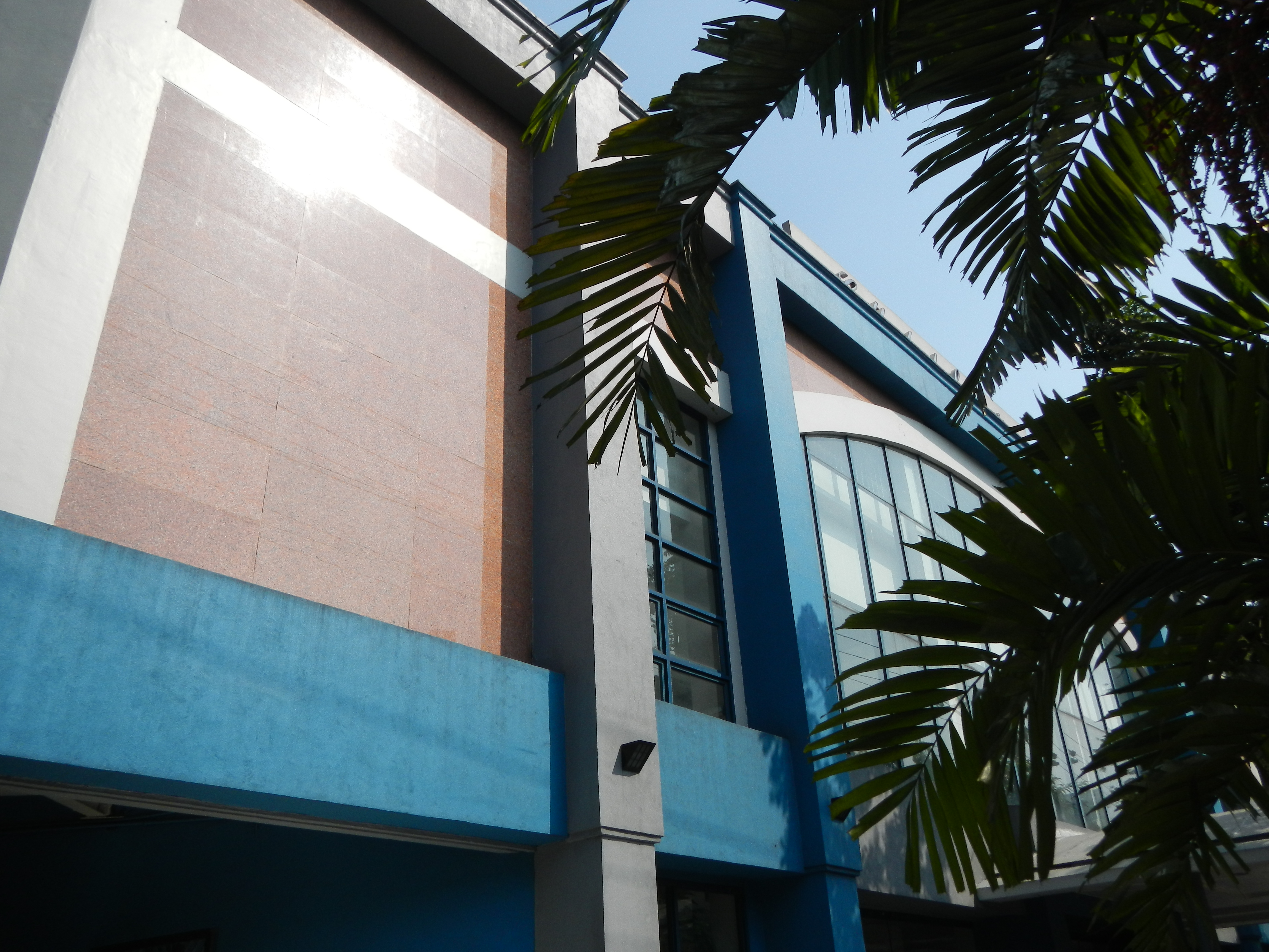 Upload Wizard photos -- (General description, 3-dimension angle by angle photography of this town, church & landmarks) -- a) Knox United Methodist Church [1] is known to be the first Filipino United Methodist Church[2] in the Philippines located along Rizal Avenue in Sta. Cruz, Manila. Philippines Central Conference (United Methodist Church)[3] Central United Methodist Church (Manila)[4] 960 Rizal Avenue cor. Lope de Vega st., Santa Cruz, Manila - b ) Cathedral of Praise[5] formerly Manila Bethel Temple is a Pentecostal Christian Church located in Manila, Philippines operates a Main Campus on 350 Taft Avenue - c) National Bureau of Investigation (Philippines)